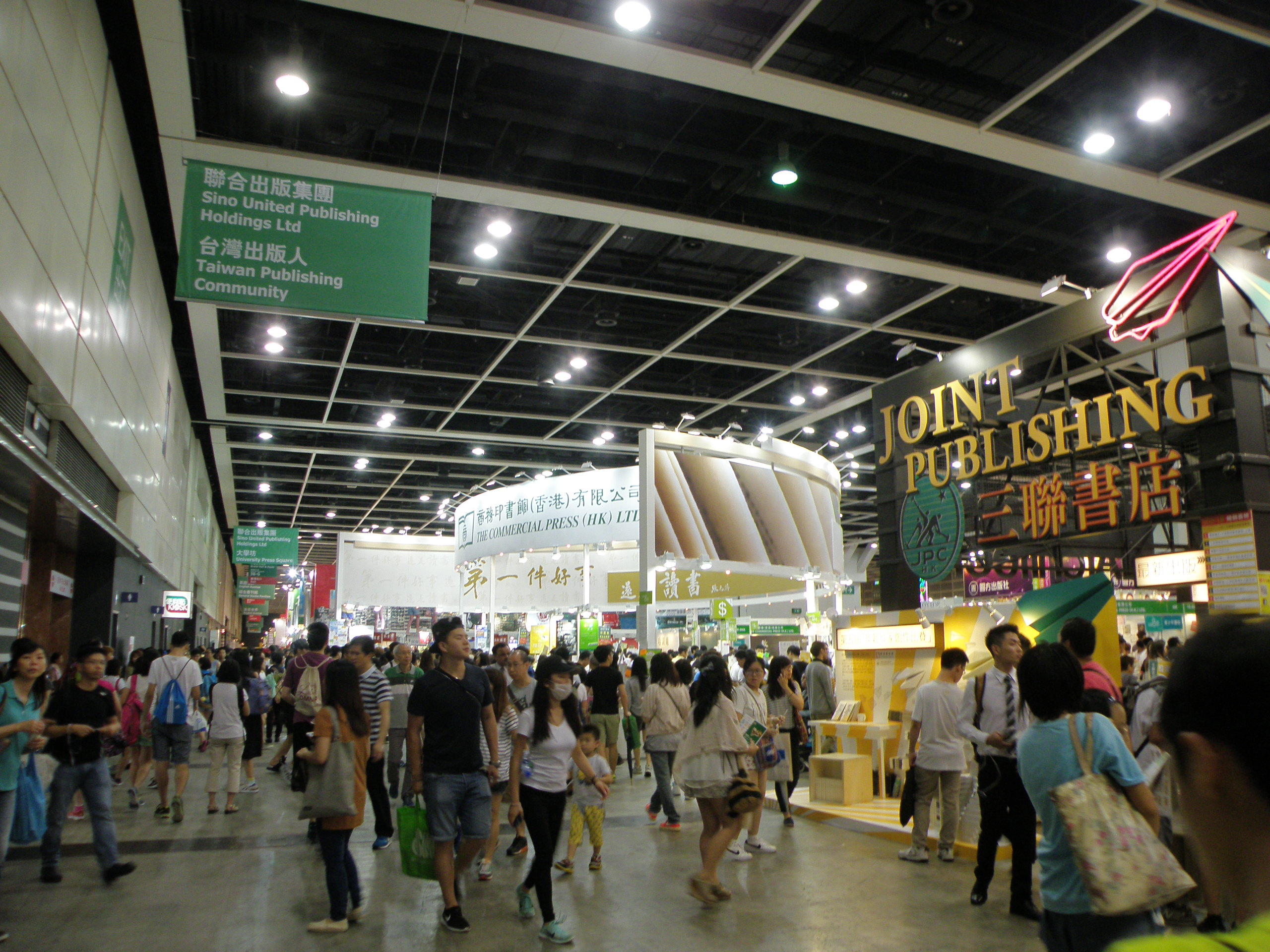 Book Fair in Wan Chai, Hong Kong.